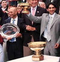 Man o'War Cup_Gold Trophy